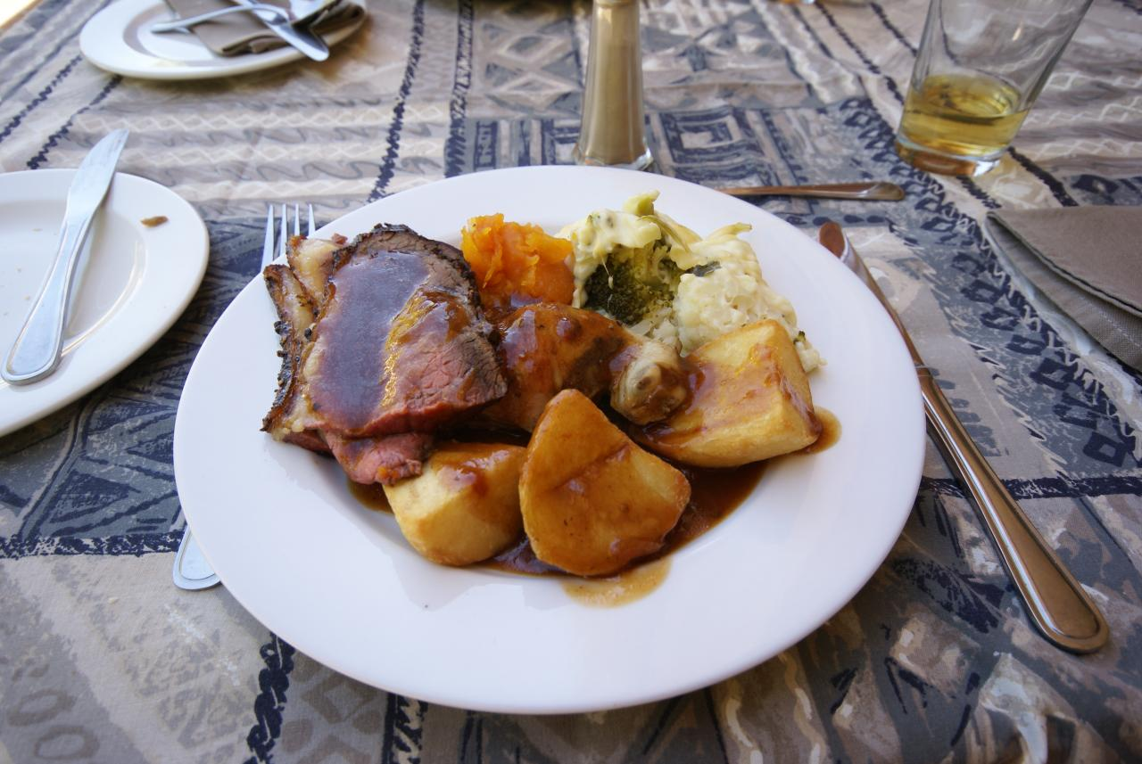 Would you believe the carvery was R79 (US$10) for soup starter, main course, and dessert!